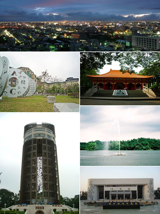 Montage of various Chiayi City images.